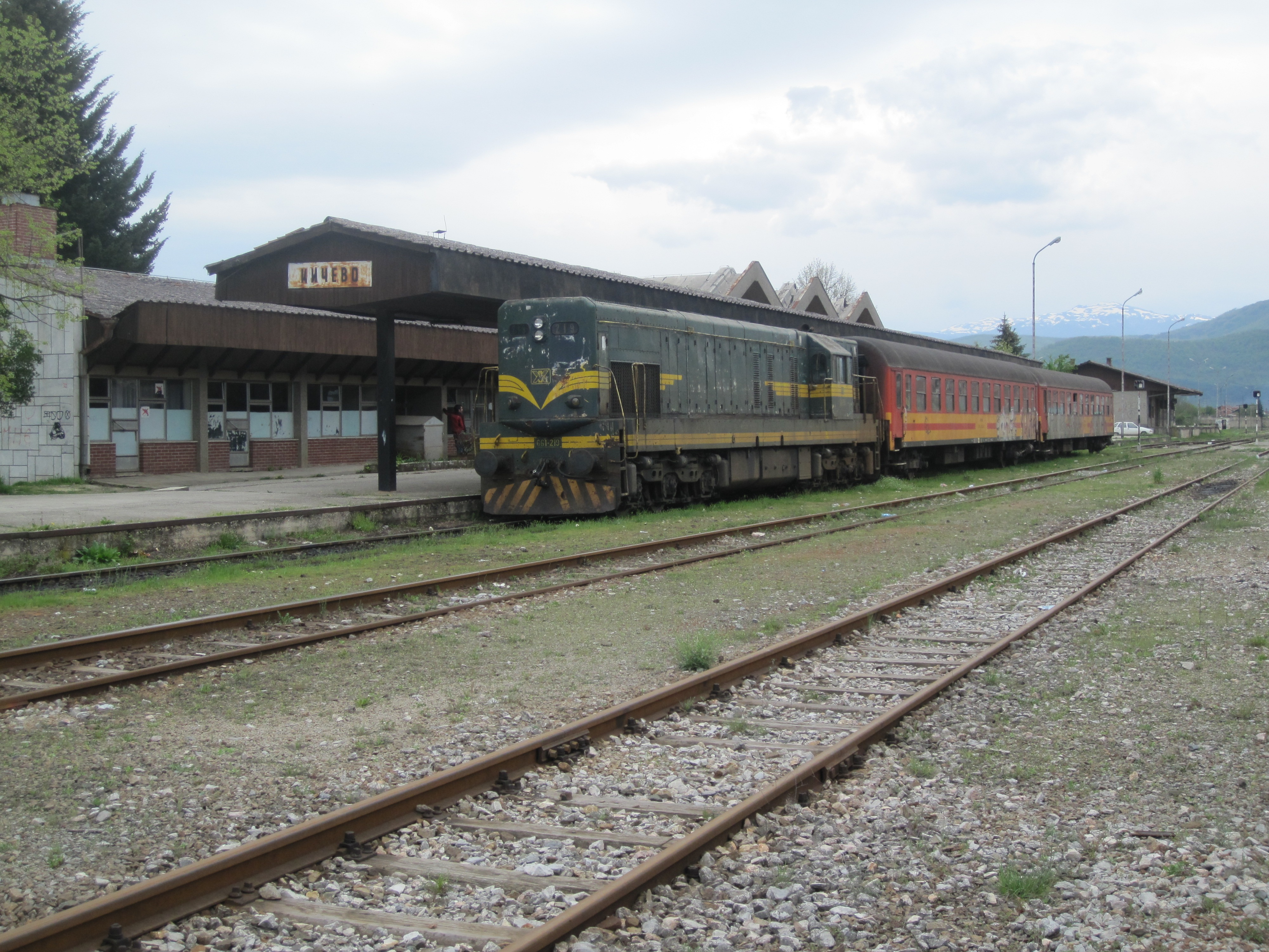 One of the workings on this branch was 661 worked. Having ran round, again a couple of spare hours in the town before returning back to the station to photo the return working back to Skopje.